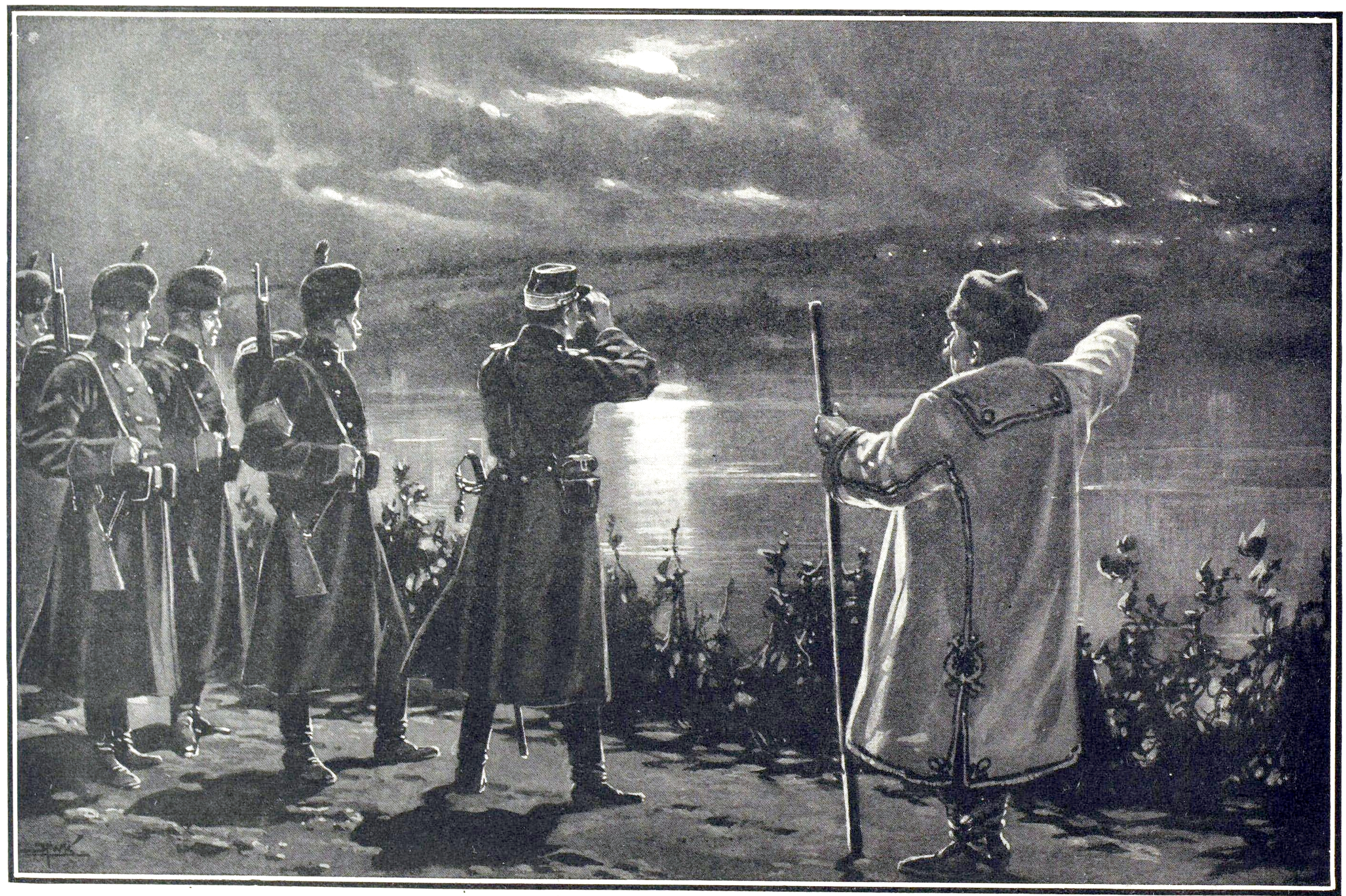 « The Fires of Revolution - A Roumanian Frontier Guard Watching the Burning of Russian Villages across the Pruth » - from the right bank of the Prut river, a romanian patrol observed the burning Bessarabian villages during the repression by the Cossacks against the revolt of the moldovan peasants.